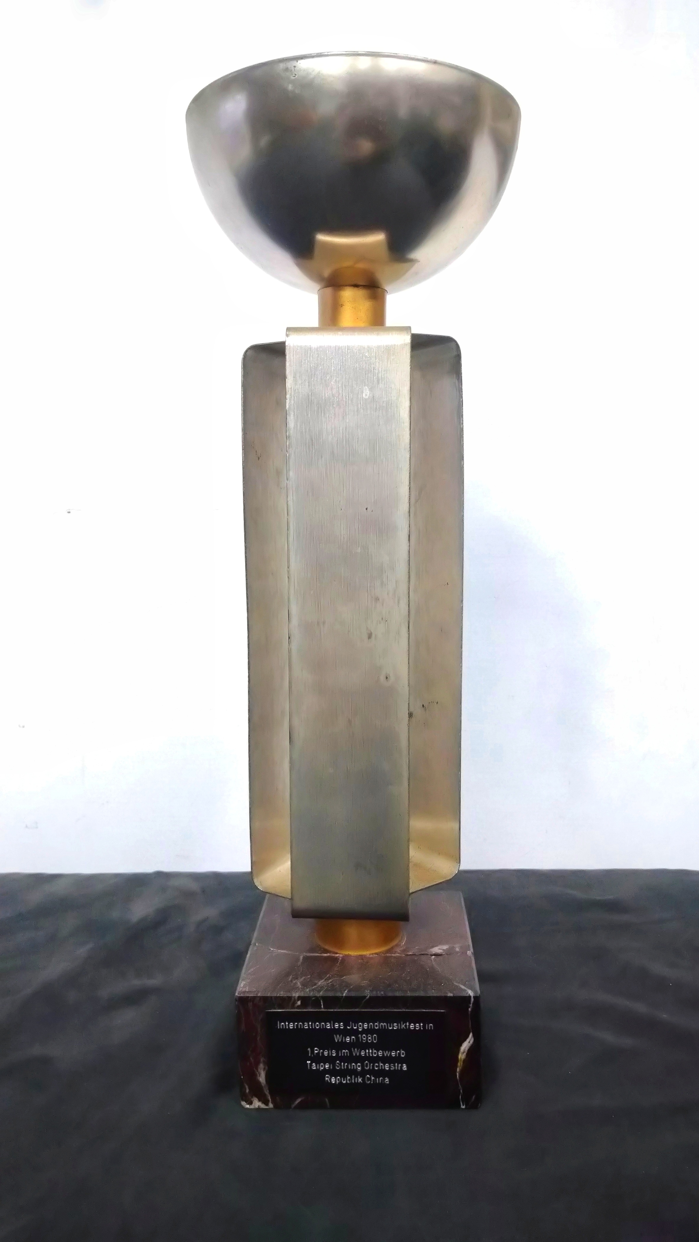 International Youth Music Festival in Vienna, 1980 中文（台灣）: 1980年維也納國際少年音樂節